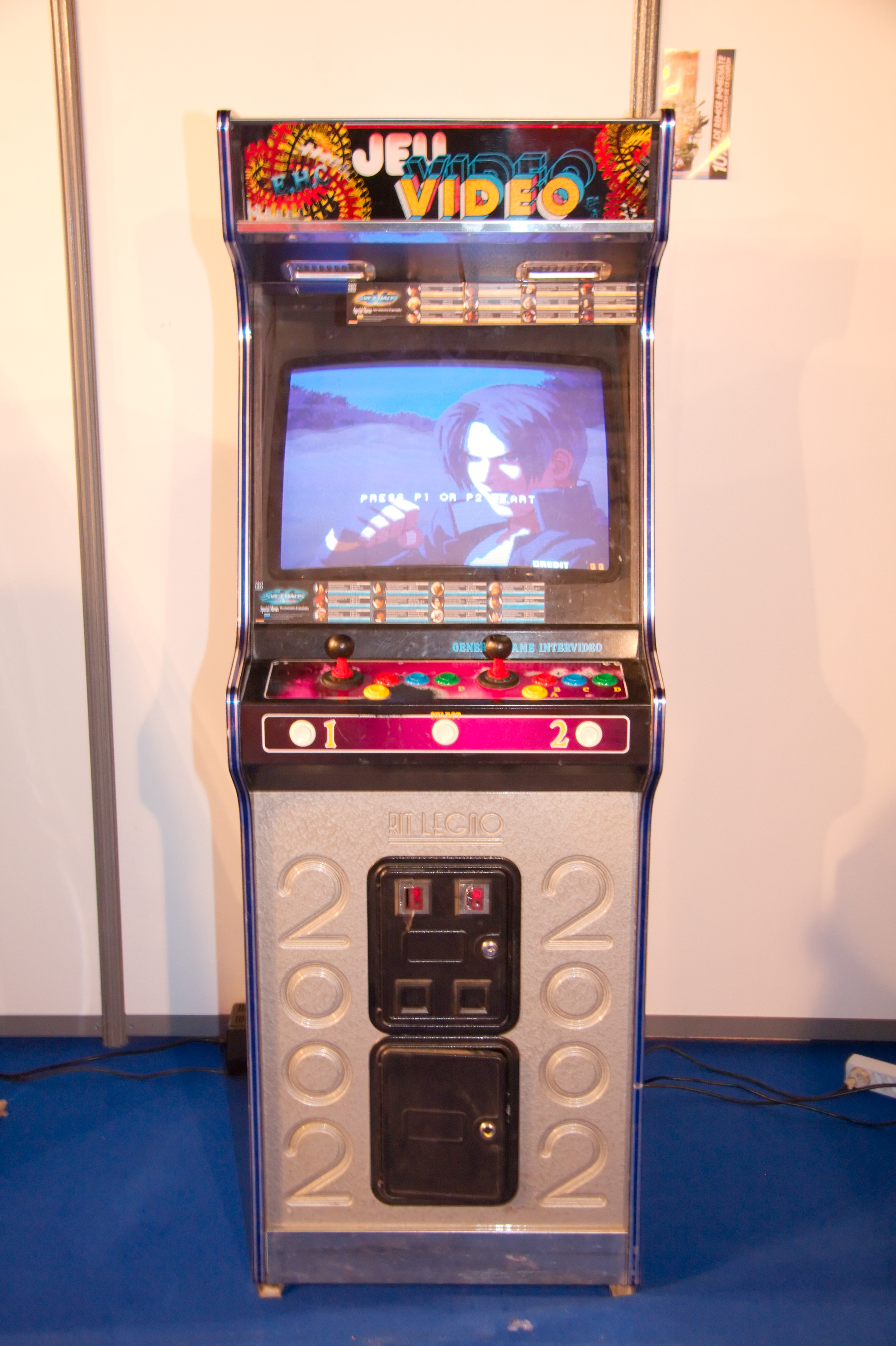 Festival du jeu vidéo 2008 (video game festival) (Paris, France).